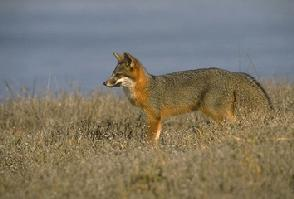 Urocyon_littoralis_standing